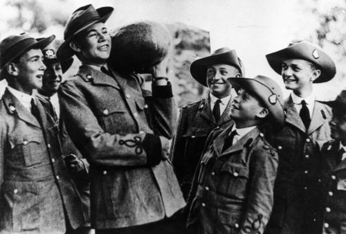 Sir William Archer Gunn and fellow students of The King's School, Sydney, circa 1931.